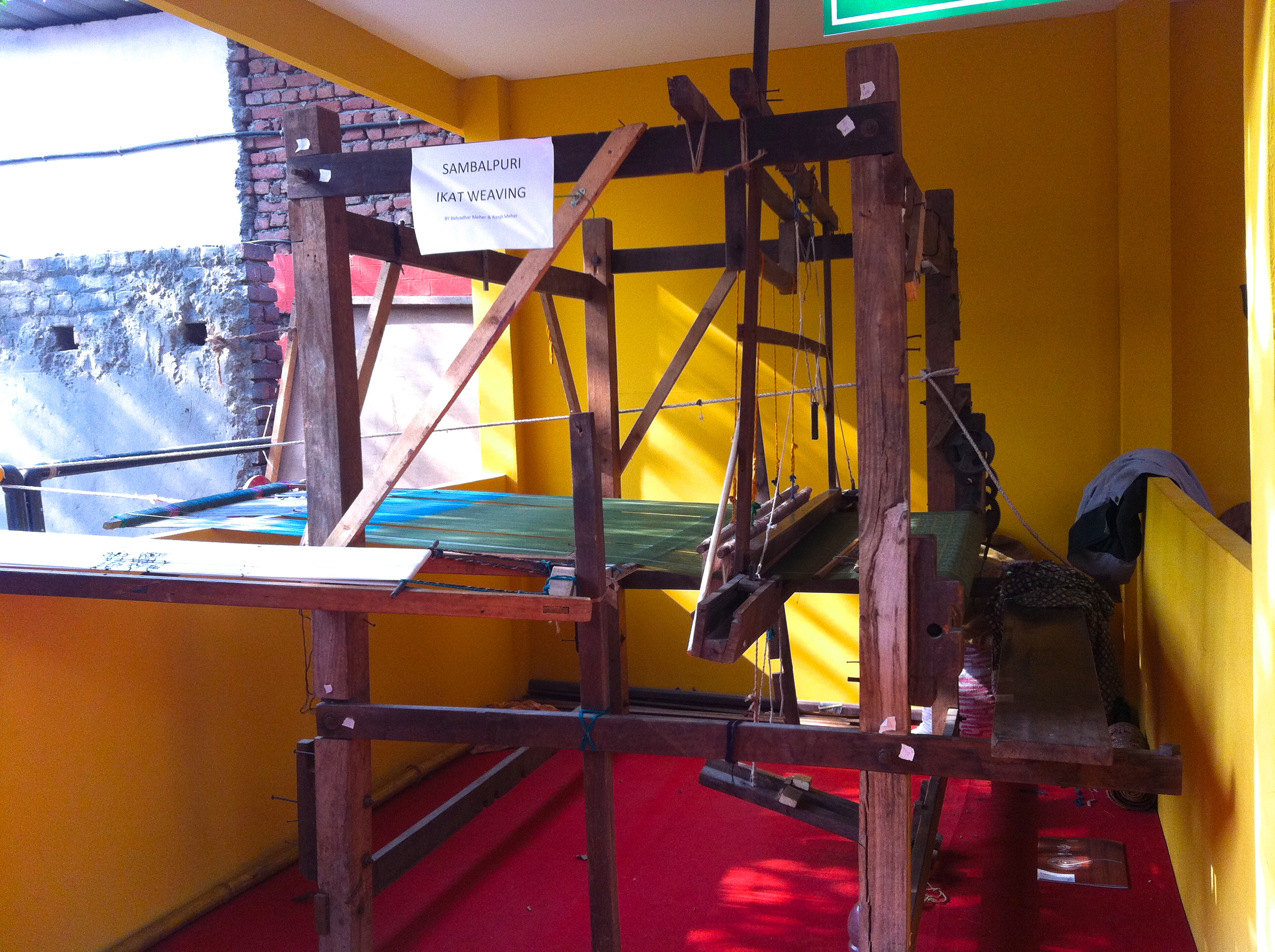 Ikat is a traditional weaving technique from the Indian state of Odisha (Orissa). This is a handheld weaving machine (ତନ୍ତ/Tanta) used to weave clothes. The original handloom is slightly modernized but the loom still uses the same basic technique of looming clothes. This photo was shot during a display exhibition of International trade fair 2013 in Pragati Maidan, Delhi, India.